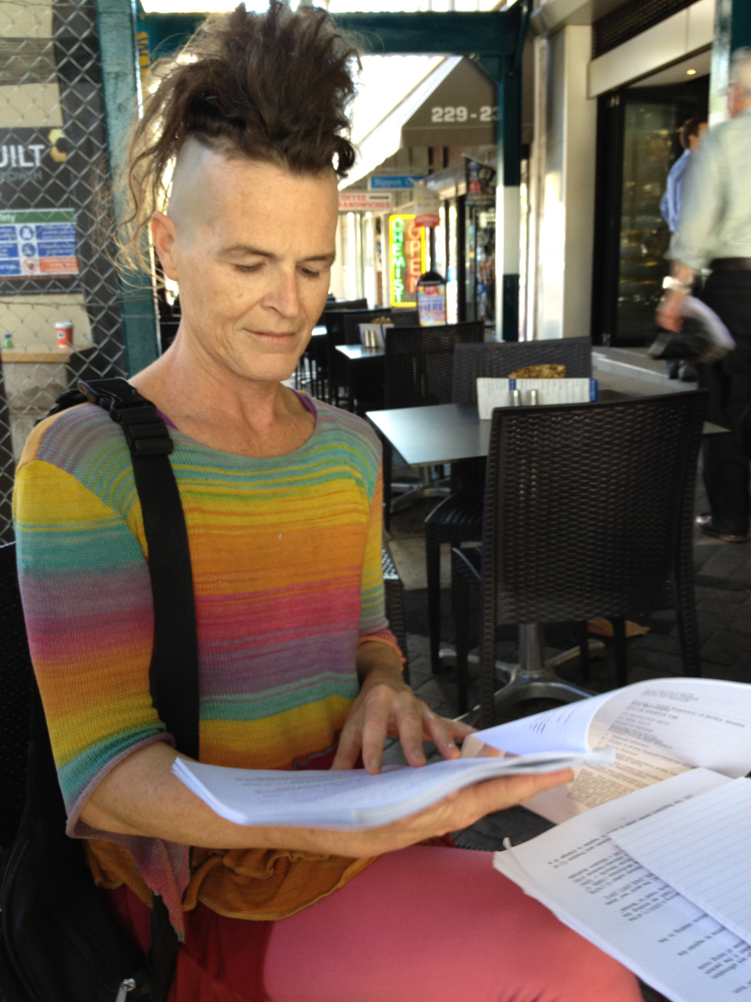 Norrie May-Welby reads the Supreme Court decision at a cafe on Macquarie Street, Sydney.